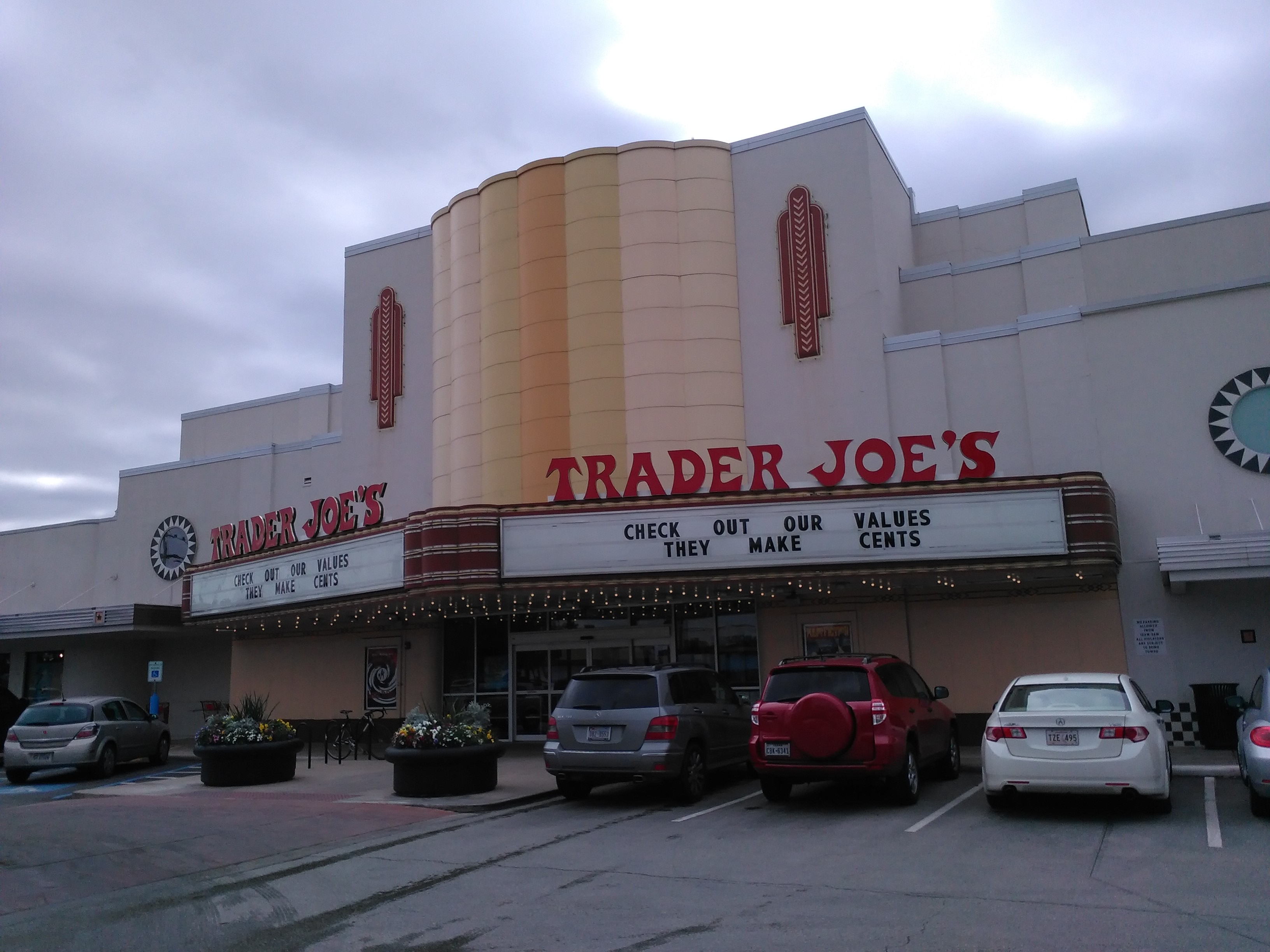 Alabama Theatre with Trader Joe's